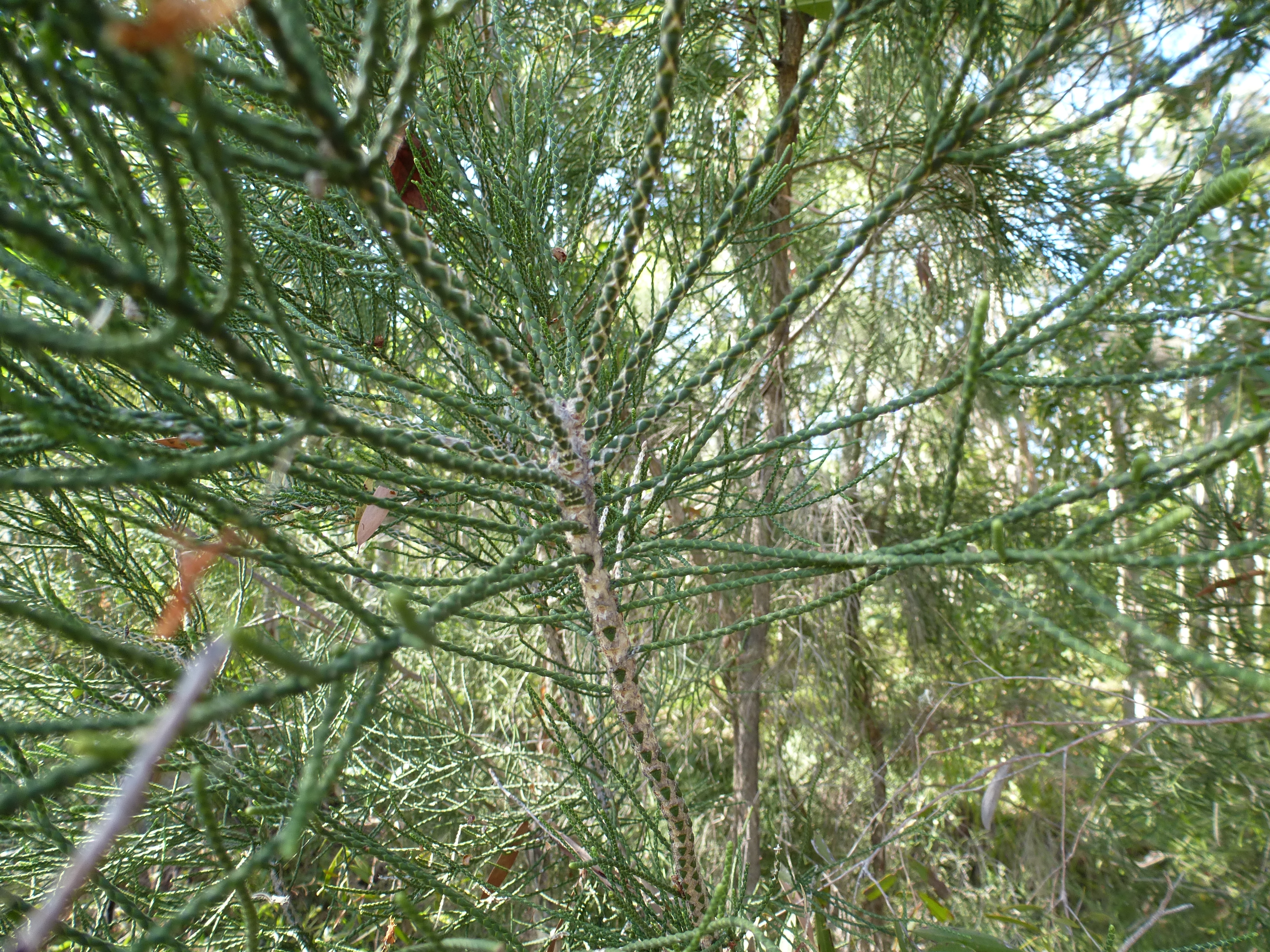 Melaleuca foliolosa foliage